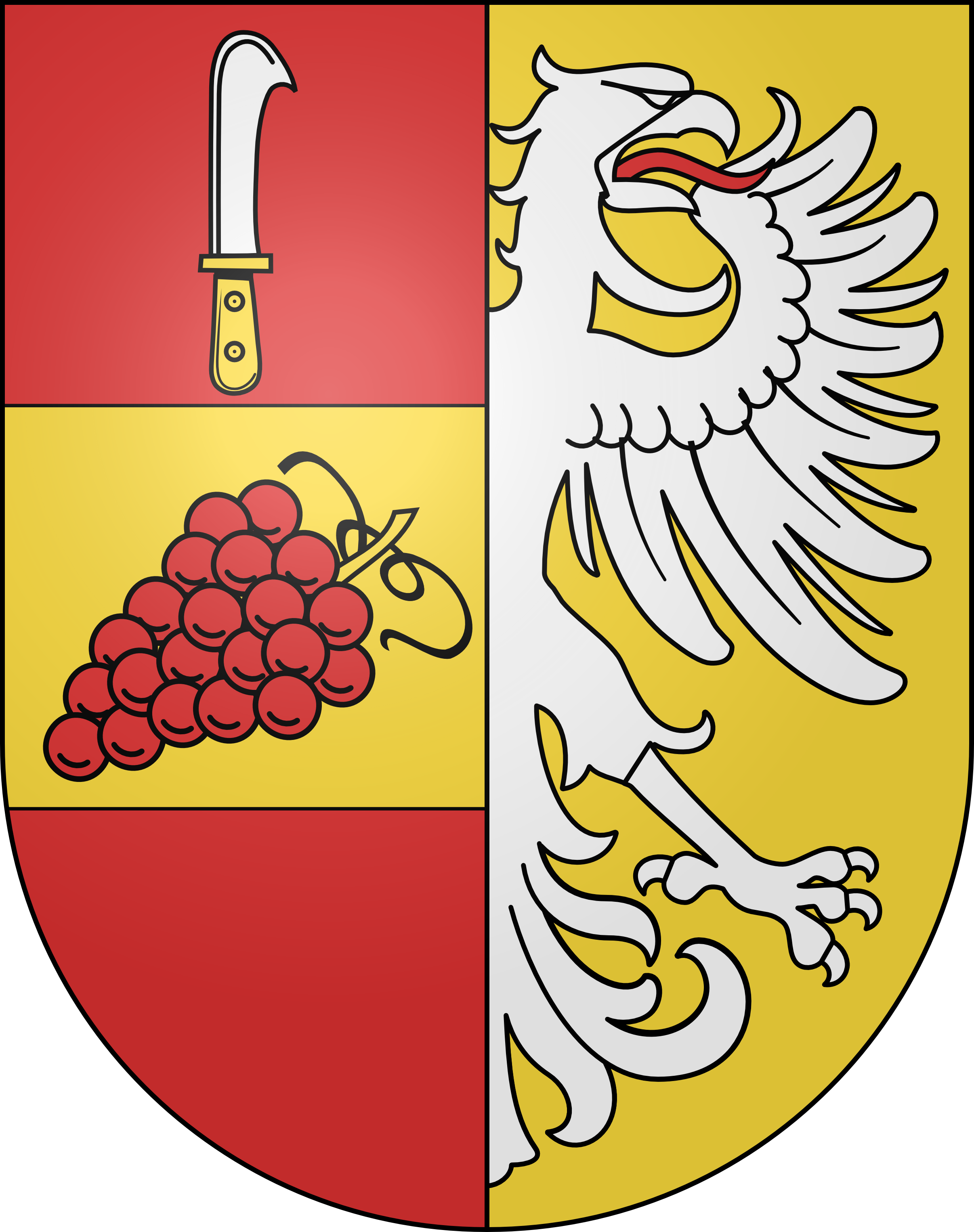 Municipal coat of arms of Hustopeče town, Břeclav District, Czech Republic.